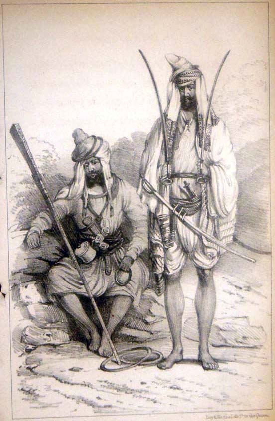 "Akalees," a steel engraving, 1840's